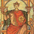 The germanic emperor Oton the second.